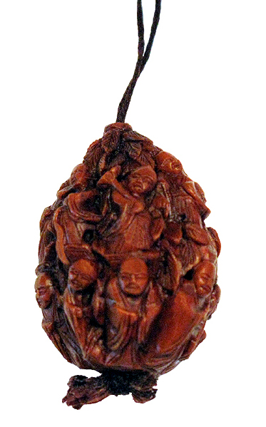 Walnut netsuke (approx. 17th Century)